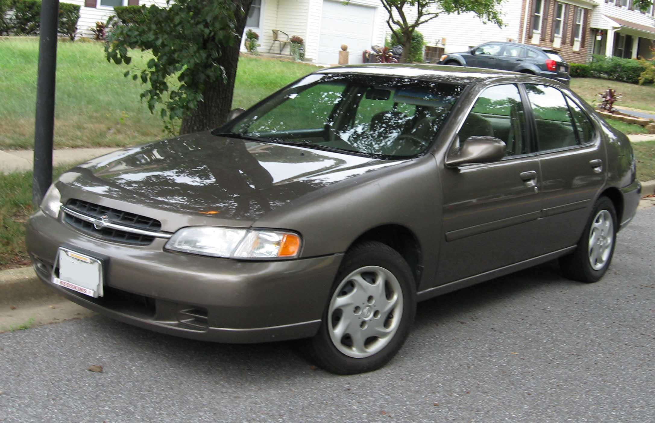 1998-1999 Nissan Altima photographed in USA.